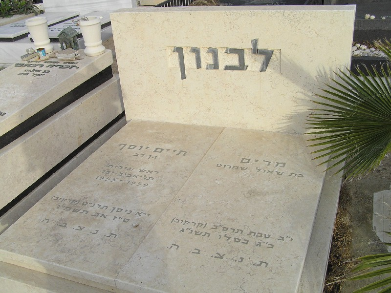 Tomb of Haim Levanon (mayor of tel Aviv) in Trumpeldor cemetery in Tel Aviv photographed by Eman, February 2006